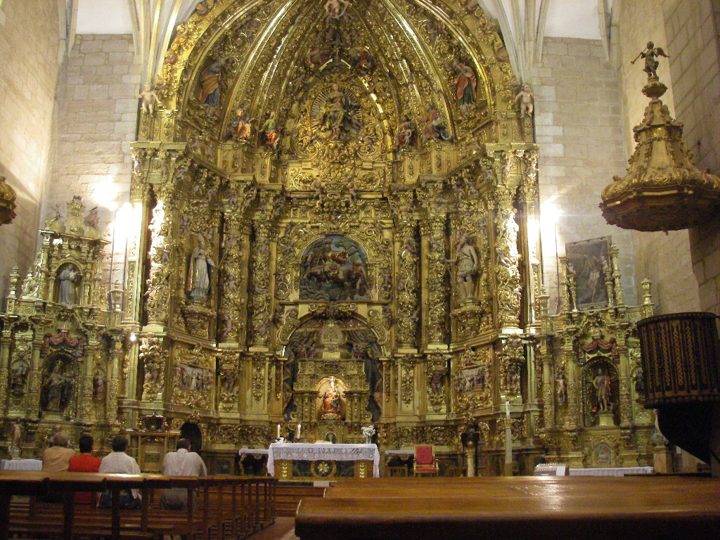 View of the interior of the Saint Martin's church in Entrena (La Rioja, Spain)